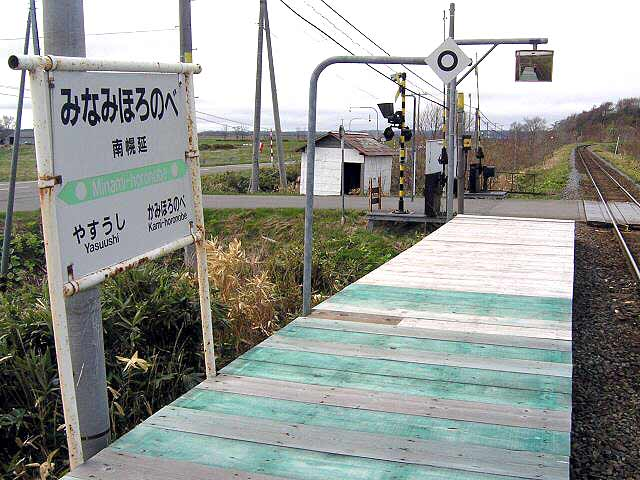 Minami-Horonobe Station on the Soya Main Line in Hokkaido, Japan